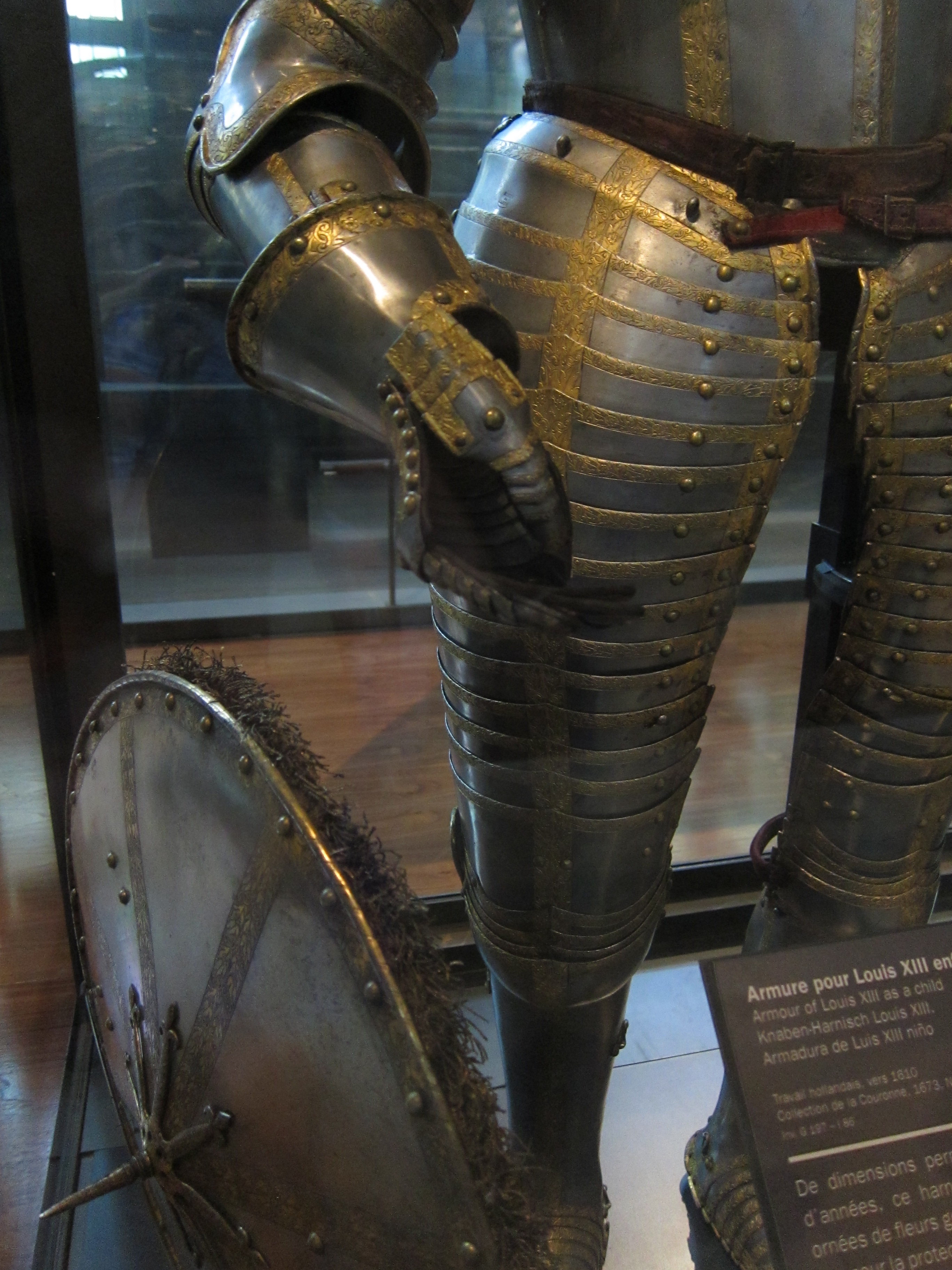 Cuisses (thigh armor), King Louis XIII armor as a child, Musee de l'armee Paris.